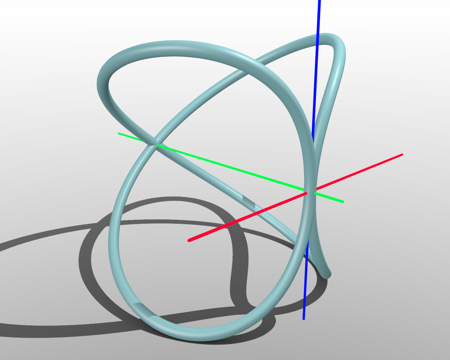 An Archytas curve, an intersection of a torus and a cylinder. Made in Blender.